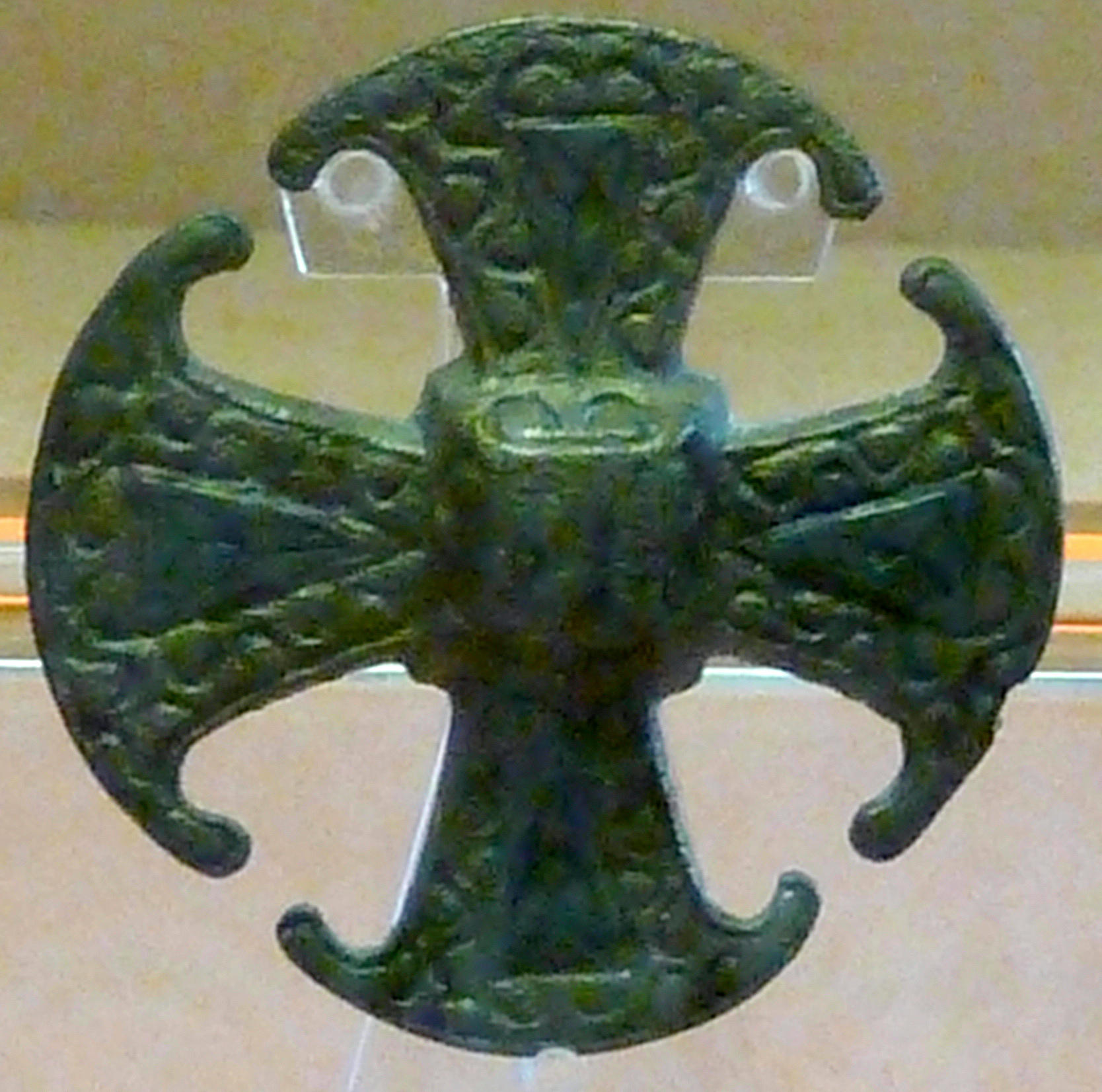 The original Canterbury Cross which is on permanent display at Canterbury Heritage Museum, Canterbury, Kent, England. Dated circa 850 AD, made of Anglo-Saxon bronze. To Anglican Christians it symbolises the Church of Canterbury. Dug up in St Georges Street, Canterbury, in 1867. "Cast in bronze with incised decoration and with applied silver triangles engraved and filled with niello enamel to give subtle contrasts of colour" (information from description card in Heritage Museum).